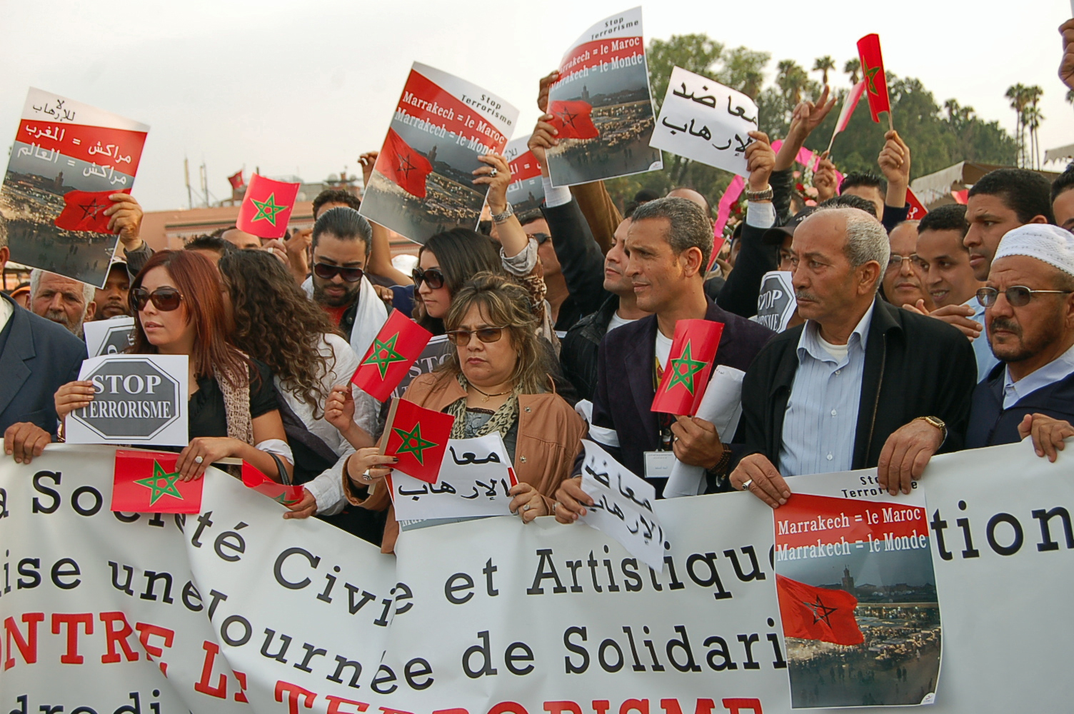 [Imrane Binoual] Citizens, tourists and officials rallied May 7th to show support for the Ochre City. خرج المواطنون والسياح والمسؤولون في مسيرة يوم 7 مايو لإبداء مساندتهم للمدينة الحمراء Citoyens, touristes et personnalités se sont rassemblés le 7 mai pour afficher leur soutien à la Cité ocre.